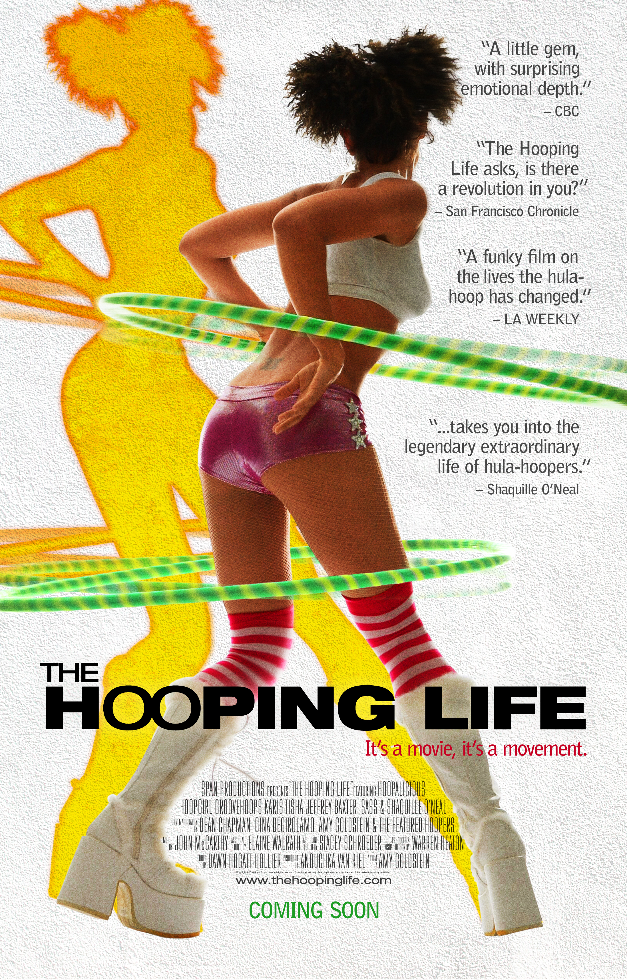 The Hooping Life is a feature-length documentary film directed by award-winning director Amy Goldstein.